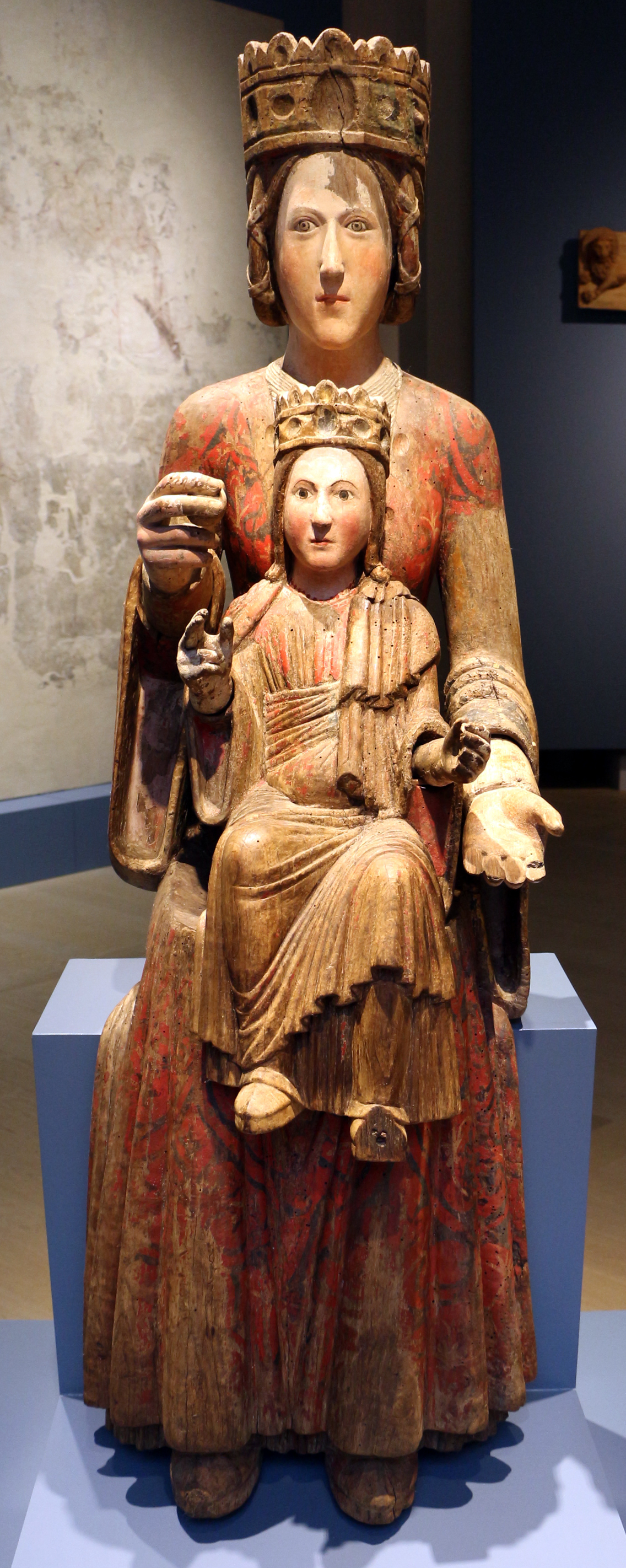 Restituzioni 2016